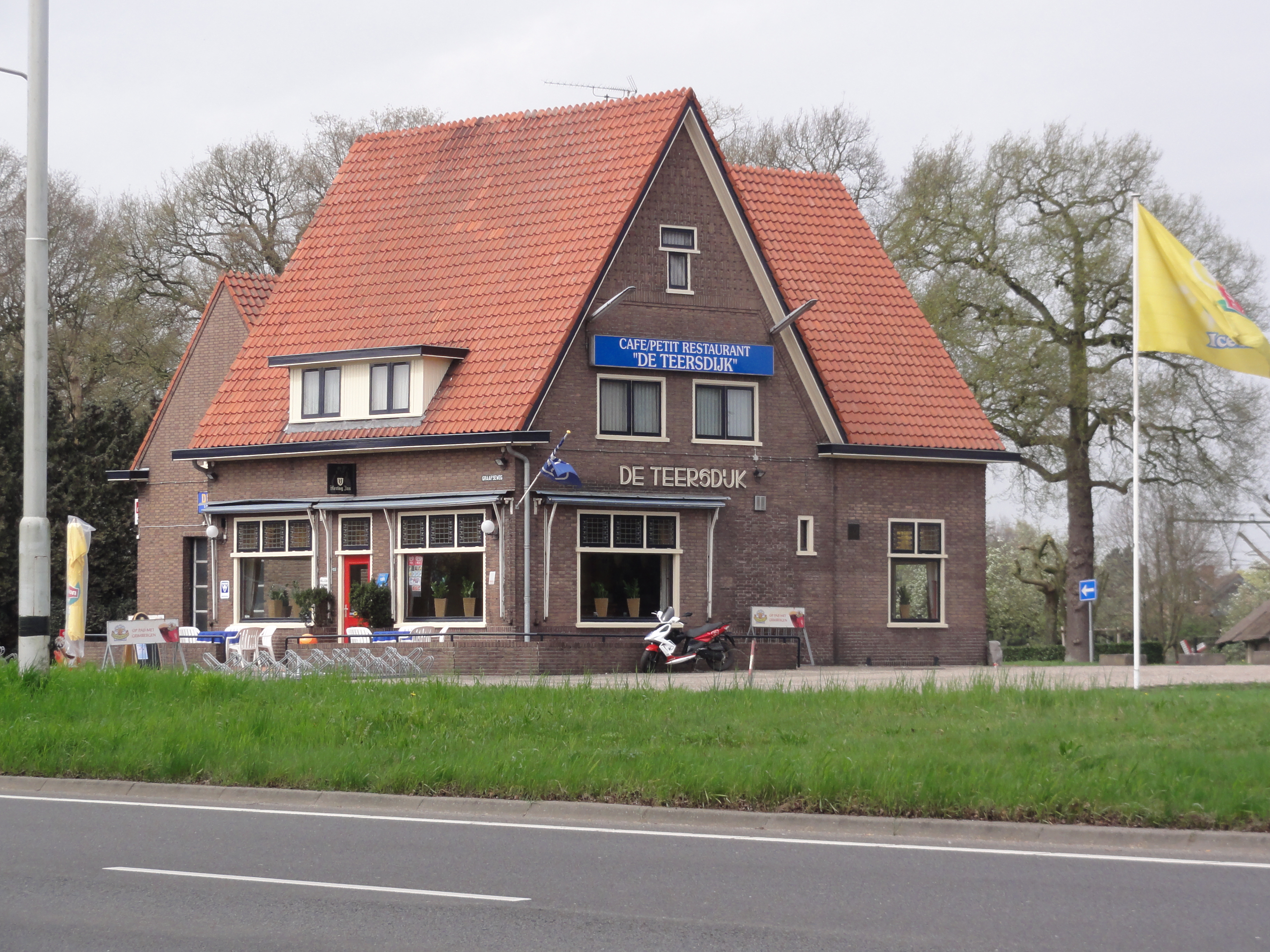 Wijchen (Gld, NL), café de Teersdijk, locatie Teersdijk.